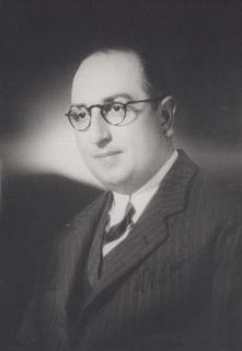 Photograph of Prince Muhammad Abdel Moneim, former Heir Apparent (1899-1914) and Regent of Egypt (1952-1953).